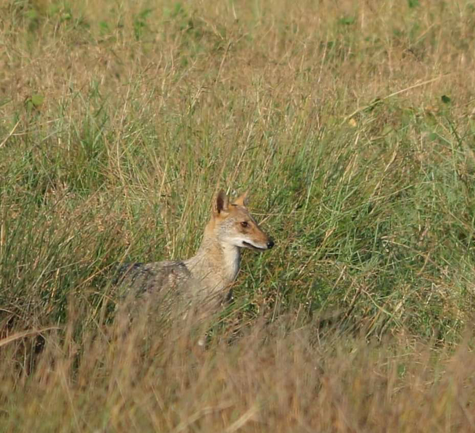 കുറുനരി,Golden Jackal or Indian Jackal, canis aureus indicus ,തൃശൂർ ജില്ലയിലെ ചാവക്കാട് നിന്നും പകർത്തിയ ചിത്രം